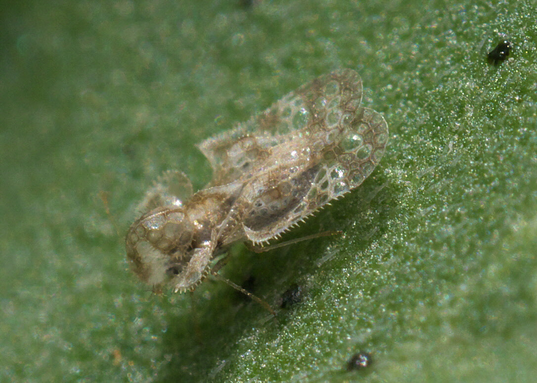 Corythucha marmorata, Chrysanthemum Lace Bug, Size: 3.0 mm, ID Confidence: 98